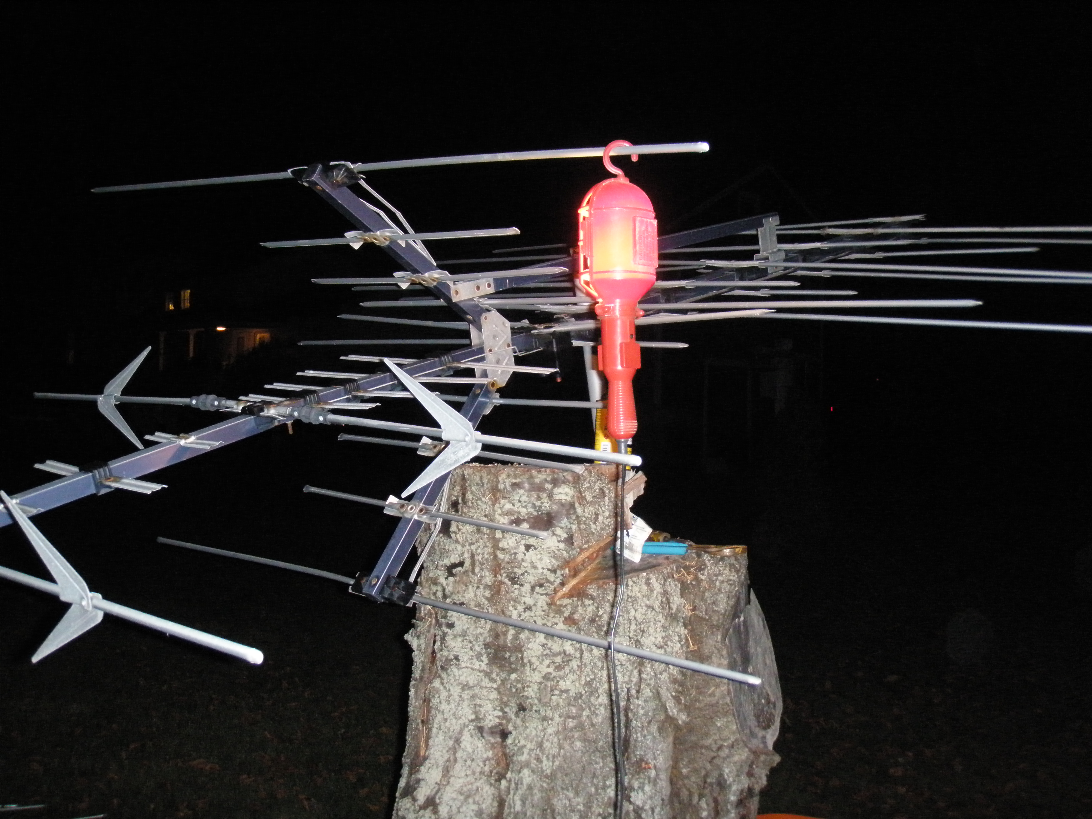 A trouble light illiminating a TV antenna